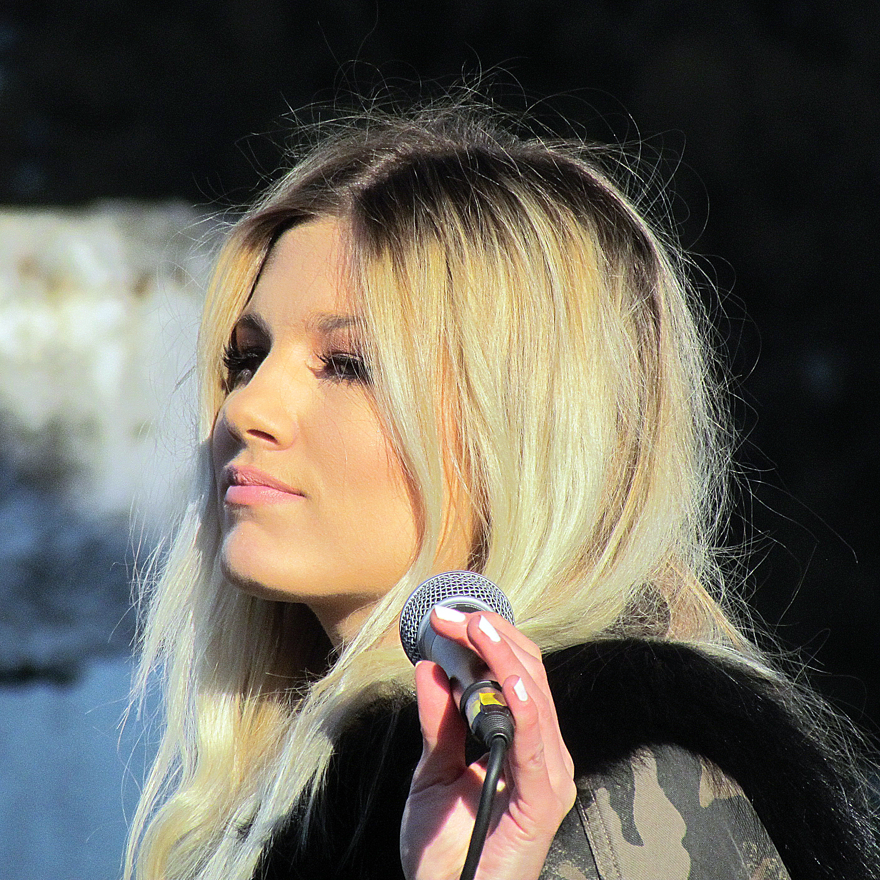 Serbian singer Nevena Bozovic